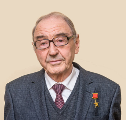 Soviet and Russian politician Oleg Dmitrievich Baklanov.